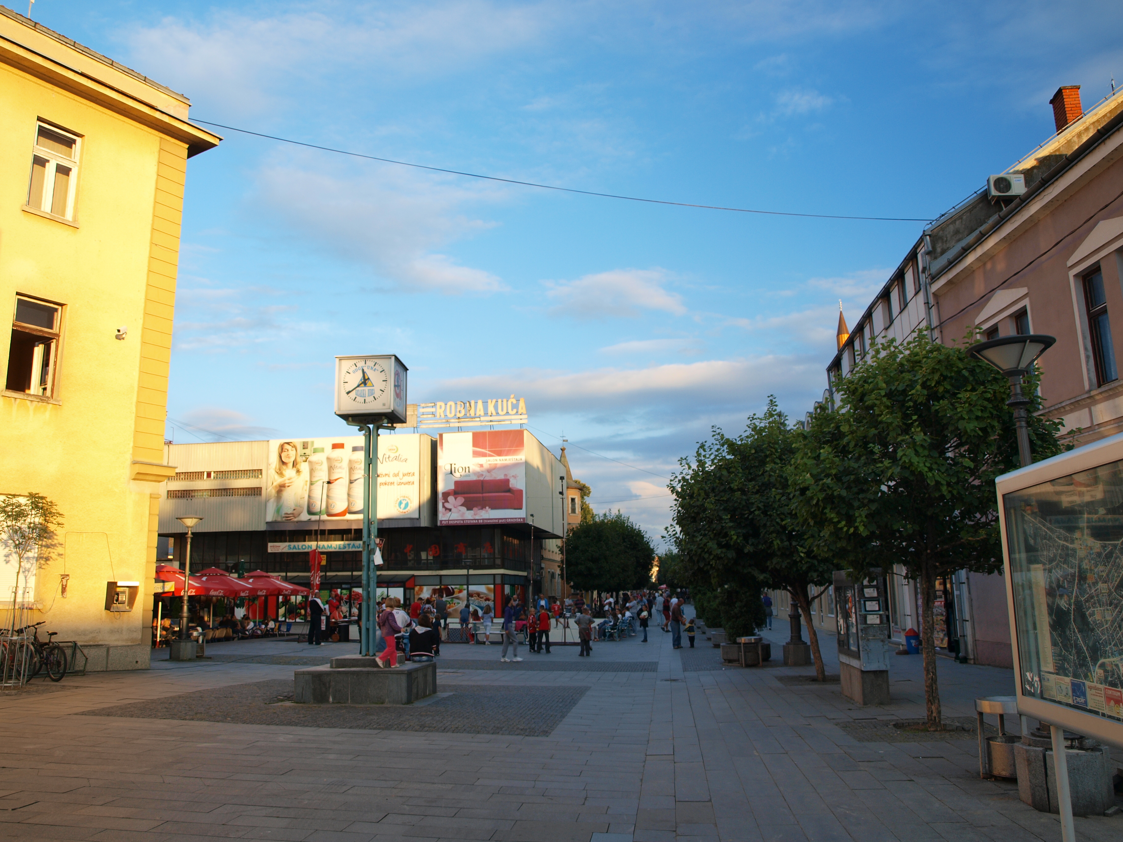 Promenade in Kozarska Dubuca, Republika Srpska.